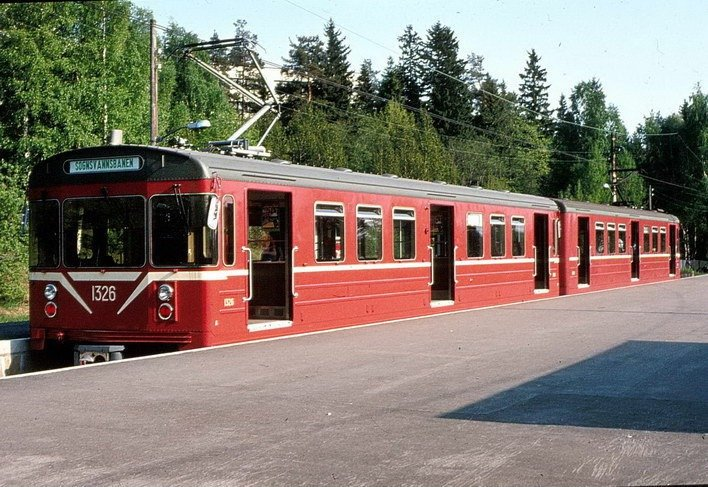 T1300 train no. 1326 at Sognsvann Station on the Sognsvann Line of the Oslo Metro.